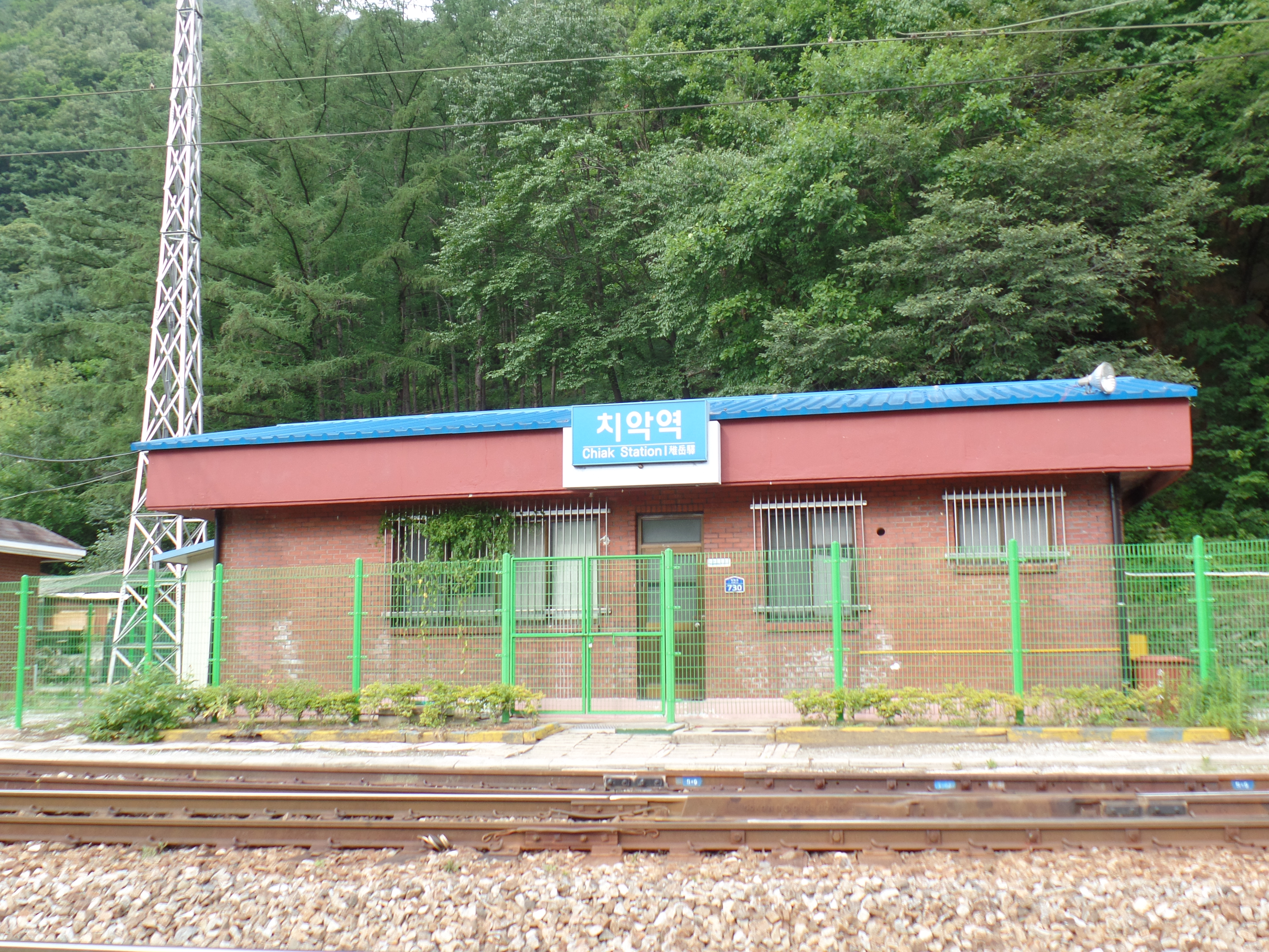 Chiak Station Building